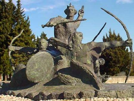 Domagojs archers